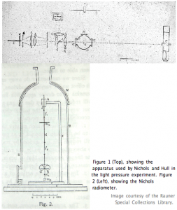 Copy uploaded from Dartmouth Undergraduate Journal of Science. Dartmouth College.